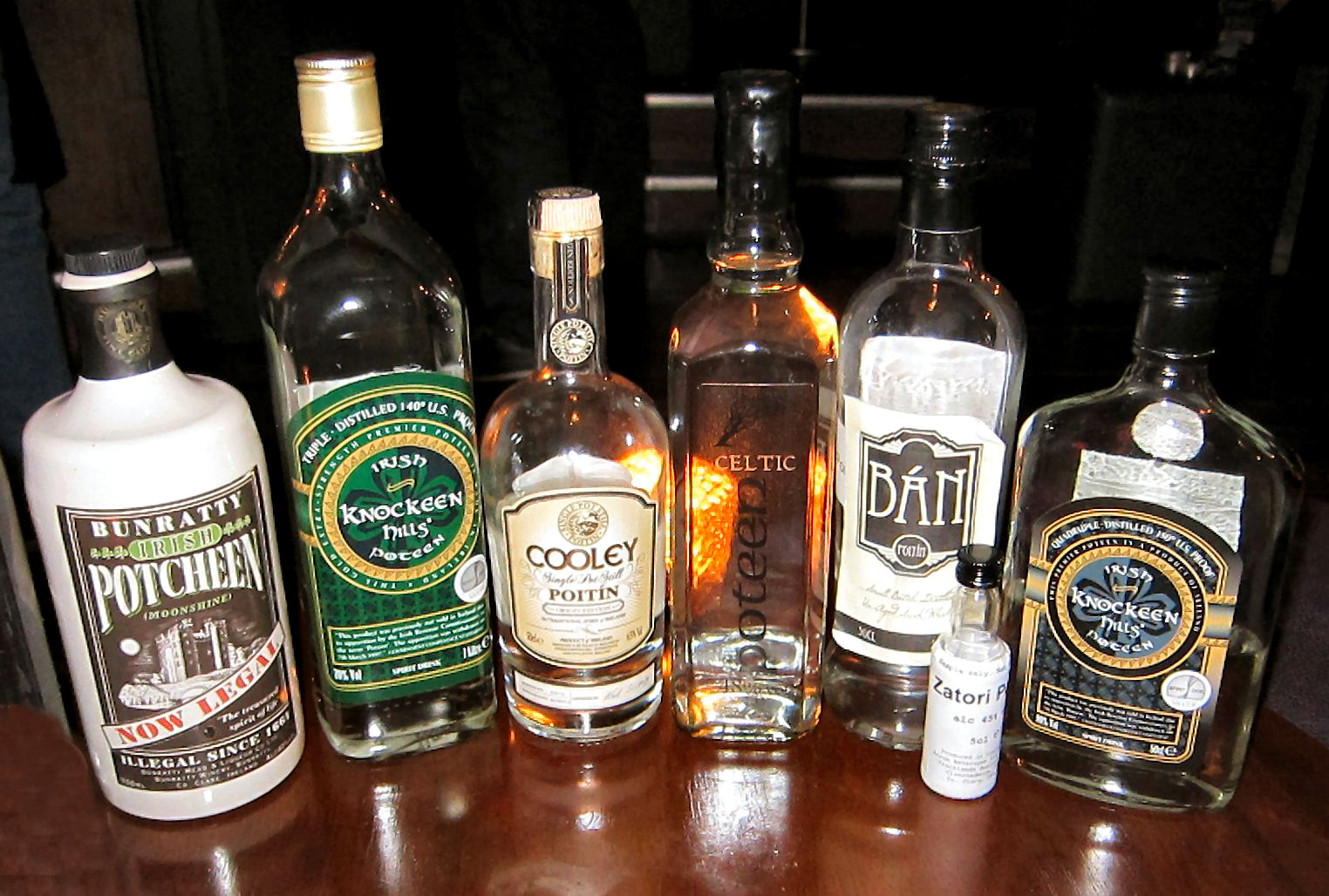 A Selection of Legal Irish and Celtic Poitin or Poteen Bottles Taken in a Poitin Bar.